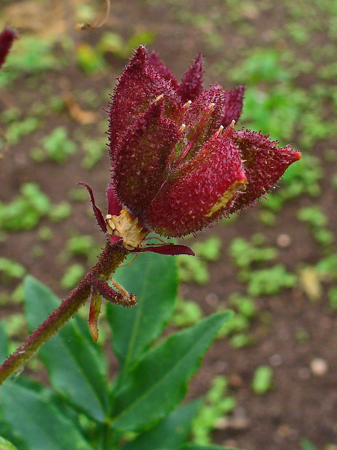 Dictamnus albus, Rutaceae, Burning Bush, False Dittany, White Dittany, and Gas-plant, fruit; Botanical Garden KIT, Karlsruhe, Germany. The leaves and the root are used in homeopathy as remedy: Dictamnus albus (Dict.)